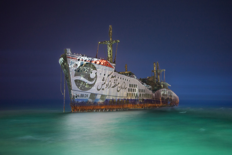 کشتی یونانی در شب عکس : امیررضا توسلی